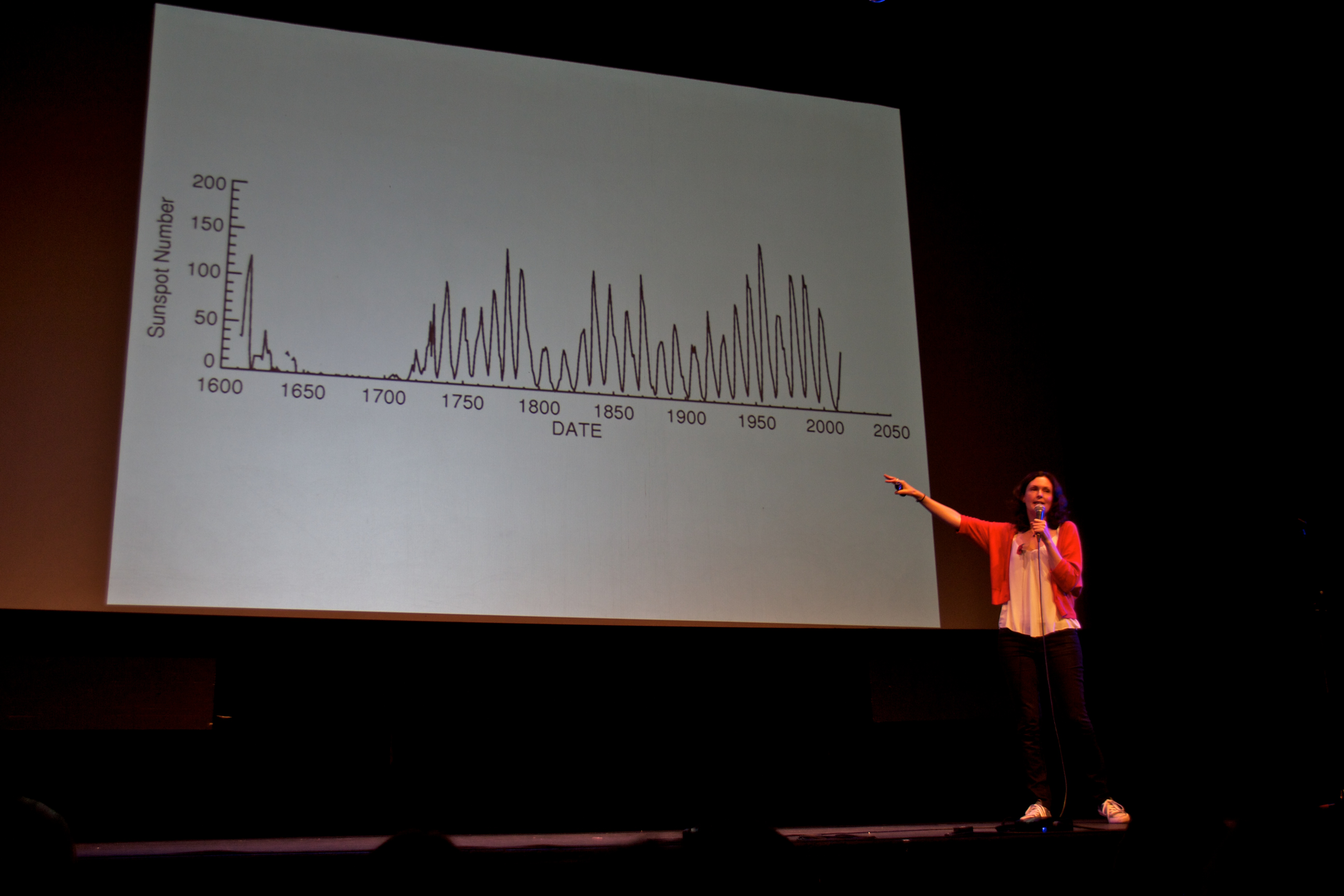 Lucie Green presenting at Bright Club London.